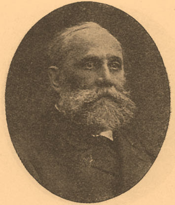 Illustration from Brockhaus and Efron Encyclopedic Dictionary (1890—1907)